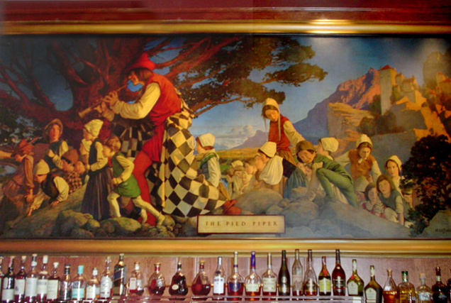 "The Pied Piper of Hamlin", a 16-foot long mural by Maxfield Parrish at the Pied Piper Bar in the Palace Hotel, San Francisco